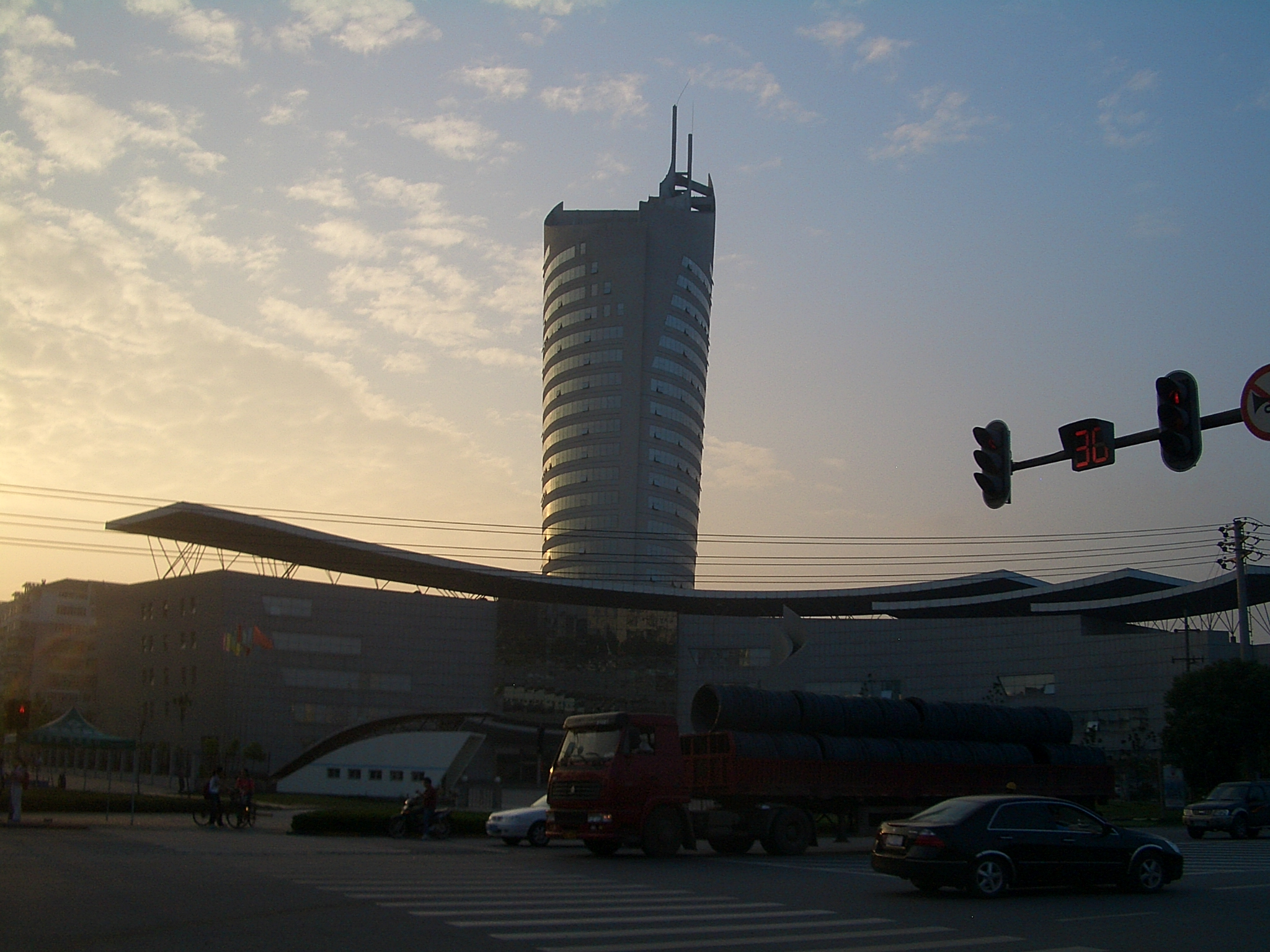 The office tower of the local television company in central Ezhou.